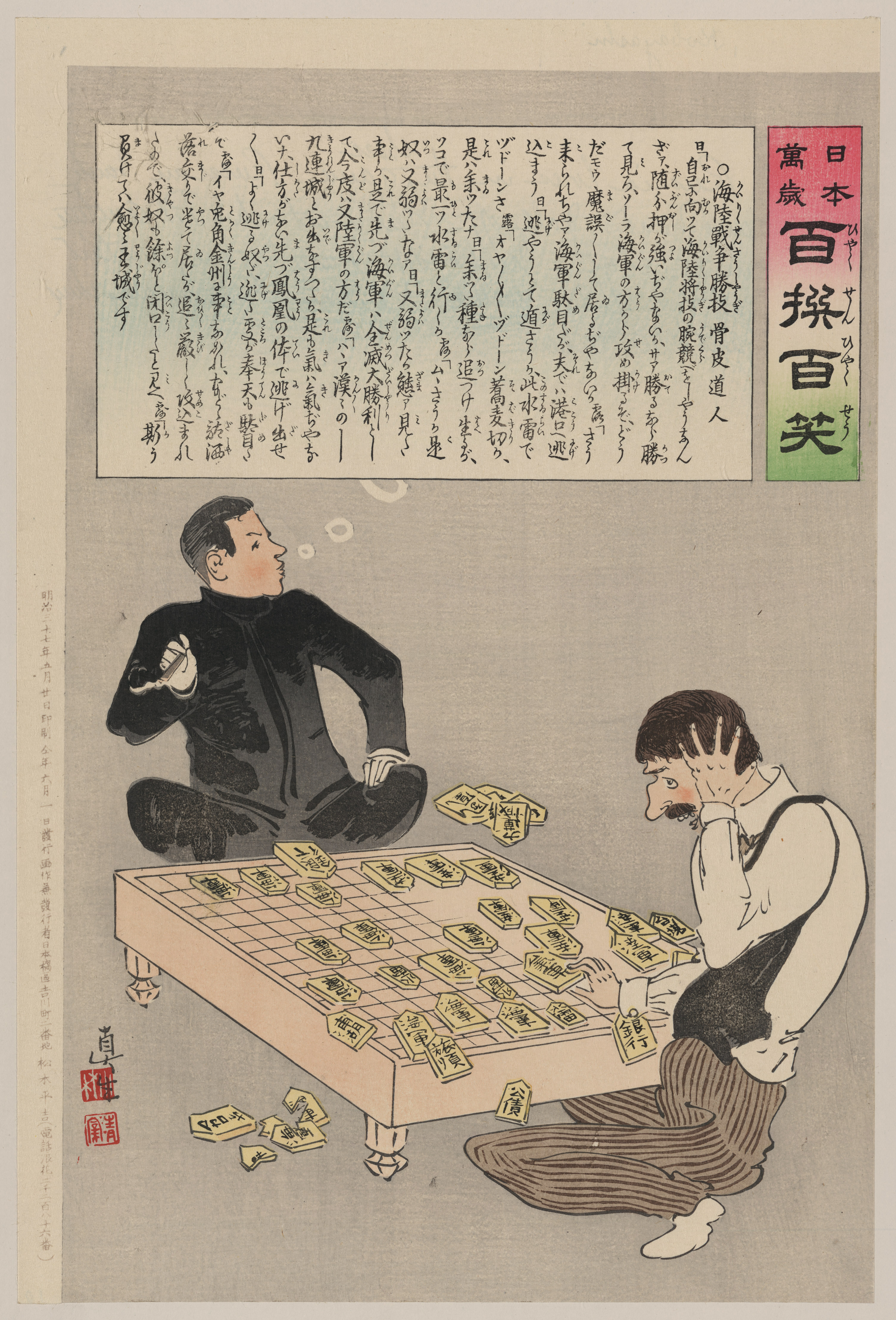 Title: A Russian civilian gets upset during a game of dai shogi, while his Japanese opponent appears confident of victory Abstract/medium: 1 print : woodcut, color ; 36.9 x 24.7 cm (sheet)